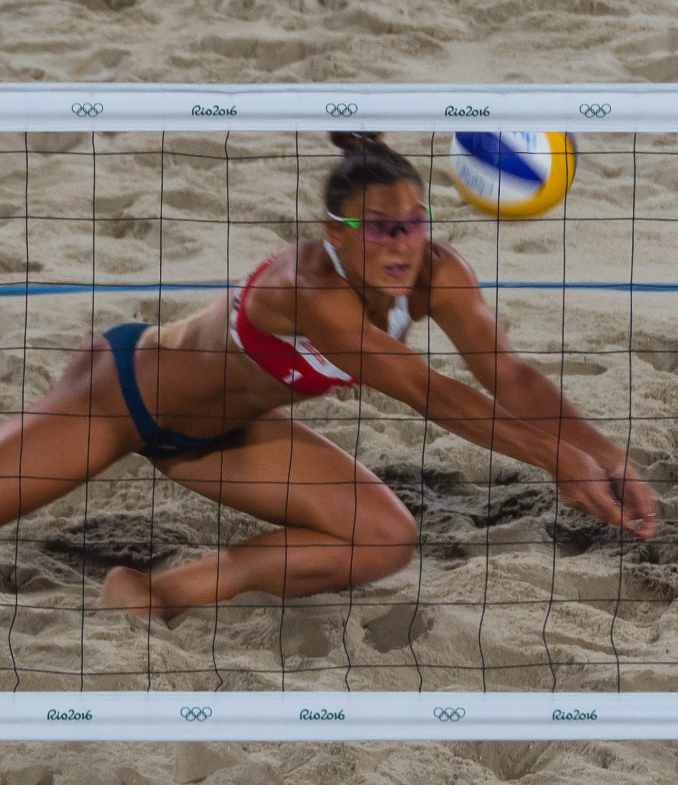 Polish beachvolleyball players Kinga Kołosińska (left) and Monika Brzostek (right) in their match against Bawden/Clancy at the Olympic Games 2016 in Rio de Janeiro